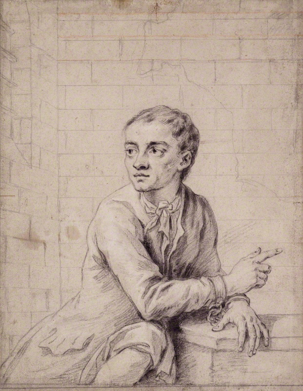 Sketch of 18th-century thief Jack Sheppard shortly before his execution in 1724.